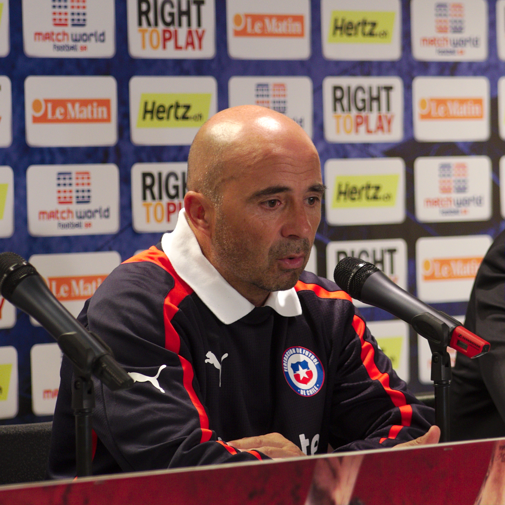 Spain - Chile - 10-09-2013 - Geneva - Jorge Sampaoli